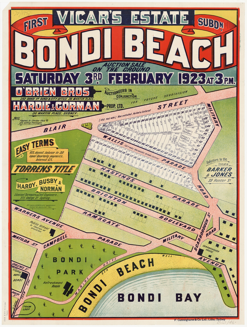 Bondi Beach, Vicar's Estate Auction, 1923, subdivision plan, printed by F. Cunnigham and Co., State Library of New South Wales M Z/ SP/ B23